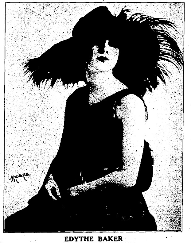 Edythe Baker, 1920